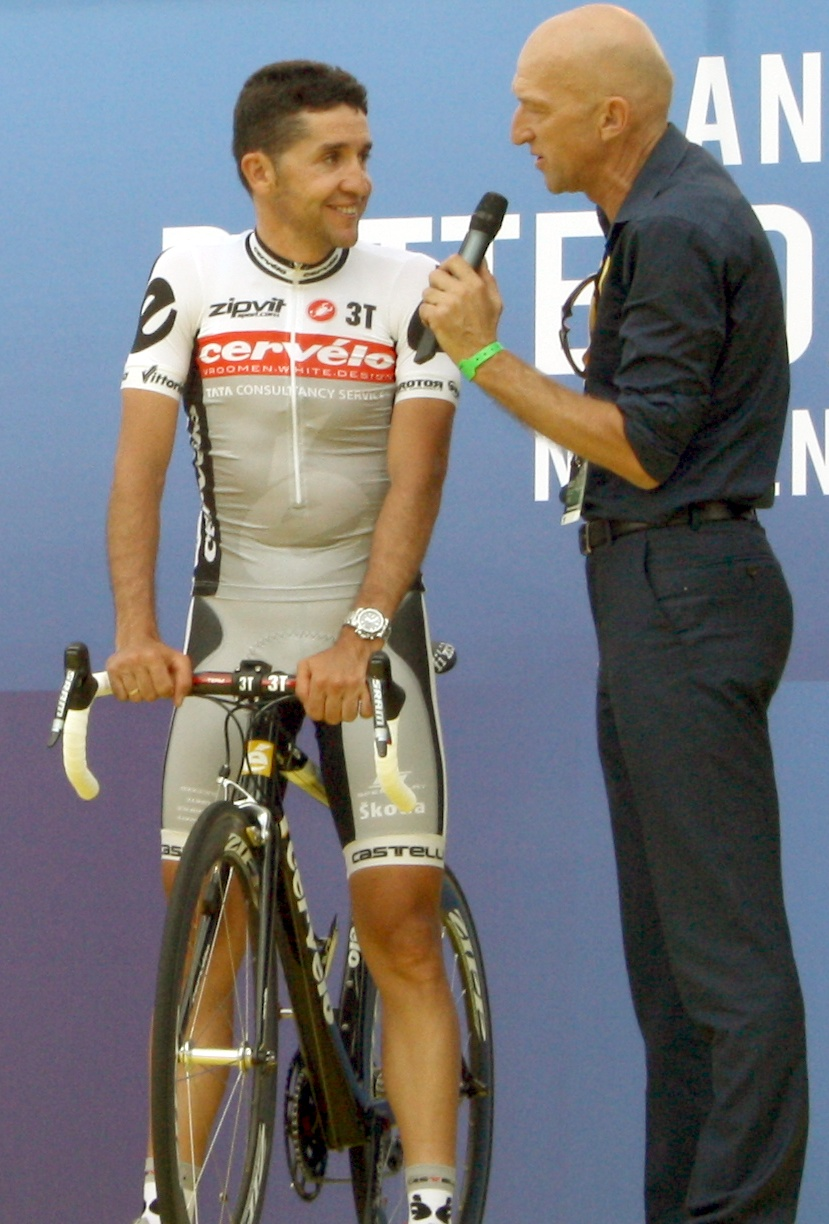 Carlos Sastre at the team presentation of the 2010 Tour de France in Rotterdam